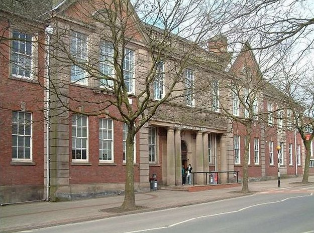 Vyse Sculpture, Staffordshire University, College Road, Stoke Stoke-on-Trent